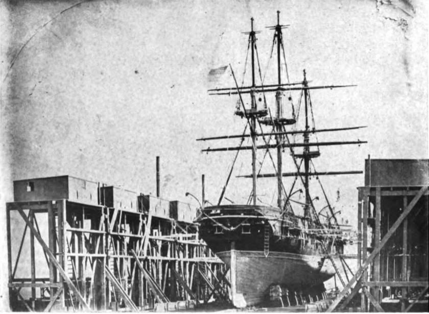 USS St. Mary's in the first dry dock established at Mare Island Navy Yard, ca. 1854. The sectional dry dock was built in New York and shipped out to California in sections around Cape Horn. St. Mary's was one of the first ships to use the dock.